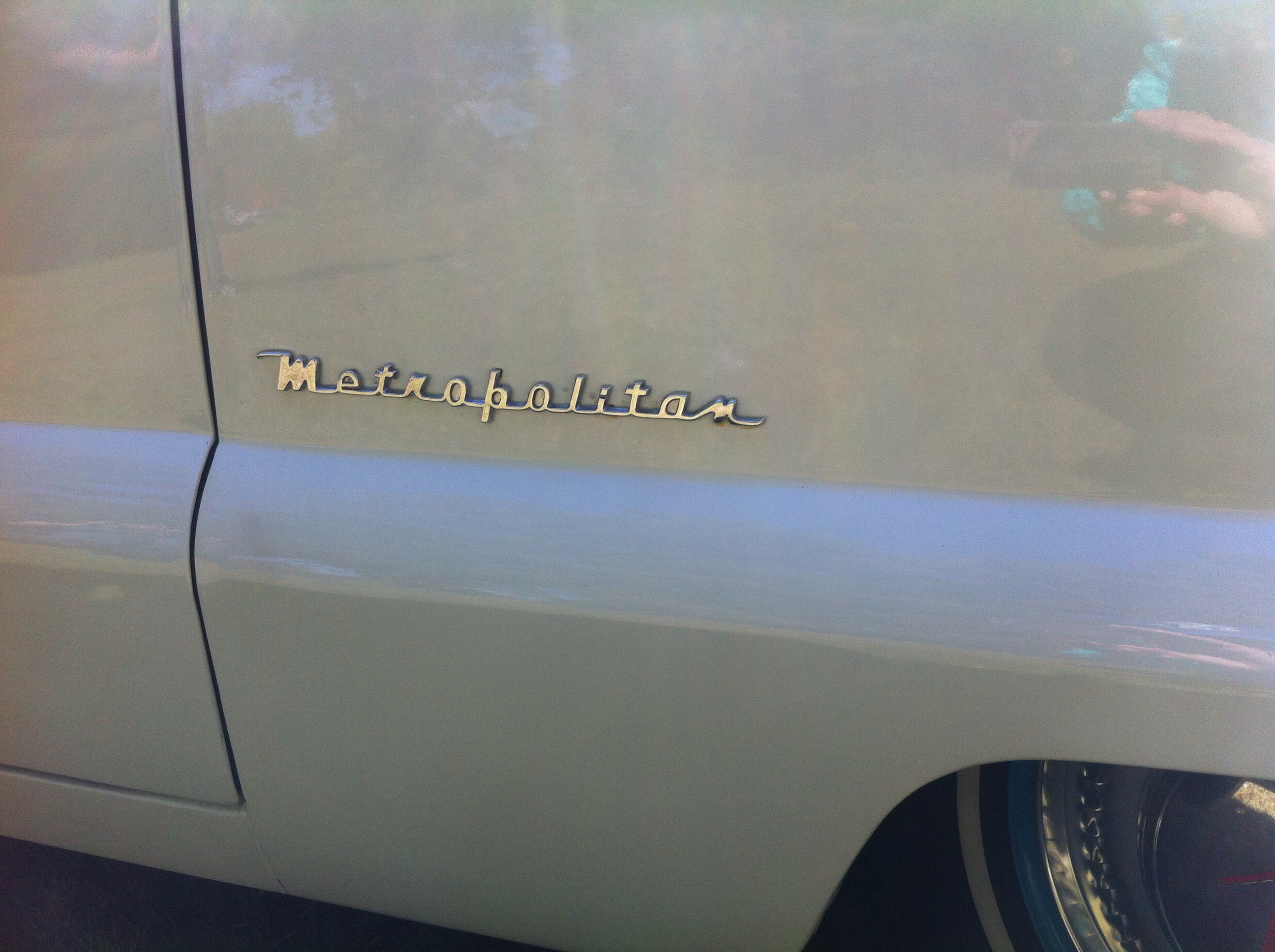 1961 Metropolitan convertible - detail of model name emblem on front right fender. After the Hudson and Nash merger these models were marketed by American Motors (AMC) as the standalone Metropolitan. Picture taken at the annual antique car show sponsored by the City of Rockville, Maryland.